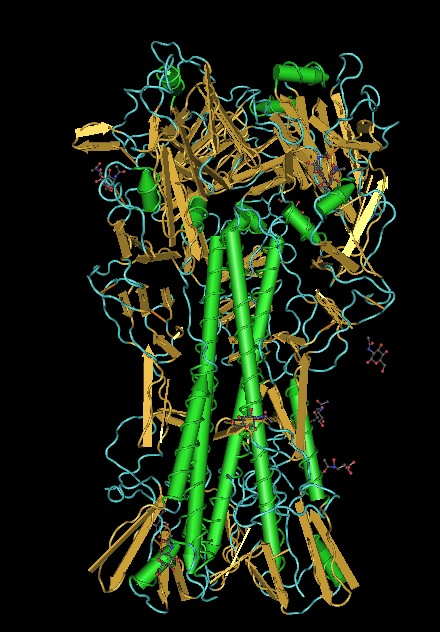 Hemagglutinin. Ribbon diagram of hemagglutinin molecule. Source: The National Center for Biotechology Information. The National Center for Biotechology Information is a division of the National Library of Medicine, which is a division of the National Institutes of Health, which come under the jurisdiction of the US Department of Health and Human Services. Material made available by these institutions on line may be freely used as with all other US Federal government agencies. The NCBI runs several biomedical databases of enormous importance to doctors and scientists around the world. One of them is MMDB, a bank of "experimentally determined three-dimensional biomolecular structures." These are freely available on their website in an open access fashion. The NCBI places no restrictions on their access and use, except to ask that appropriate crediting is observed. The structures database consists of 3d video imagery of important proteins and other structures that can be visualized with Cn3D software. The above image is a still that I captured from one of the dozens of free files of Hemagglutinin. In this sense, this image is derivative. I hereby declare that I claim no copyright whatsoever over this image, for my part. As far as the source of the image is concerned, this was as stated released freely by the NCBI with no restriction on its use. I am placing the NIH and HHS tags below (there is no NCBI tag on Wikipedia yet).